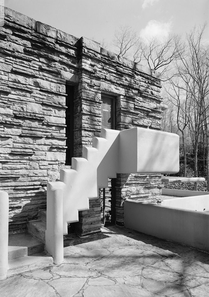 Fallingwater, State Route 381 (Stewart Township), Ohiopyle vicinity, Fayette County, PA - Stairs for dressing room to west terrace